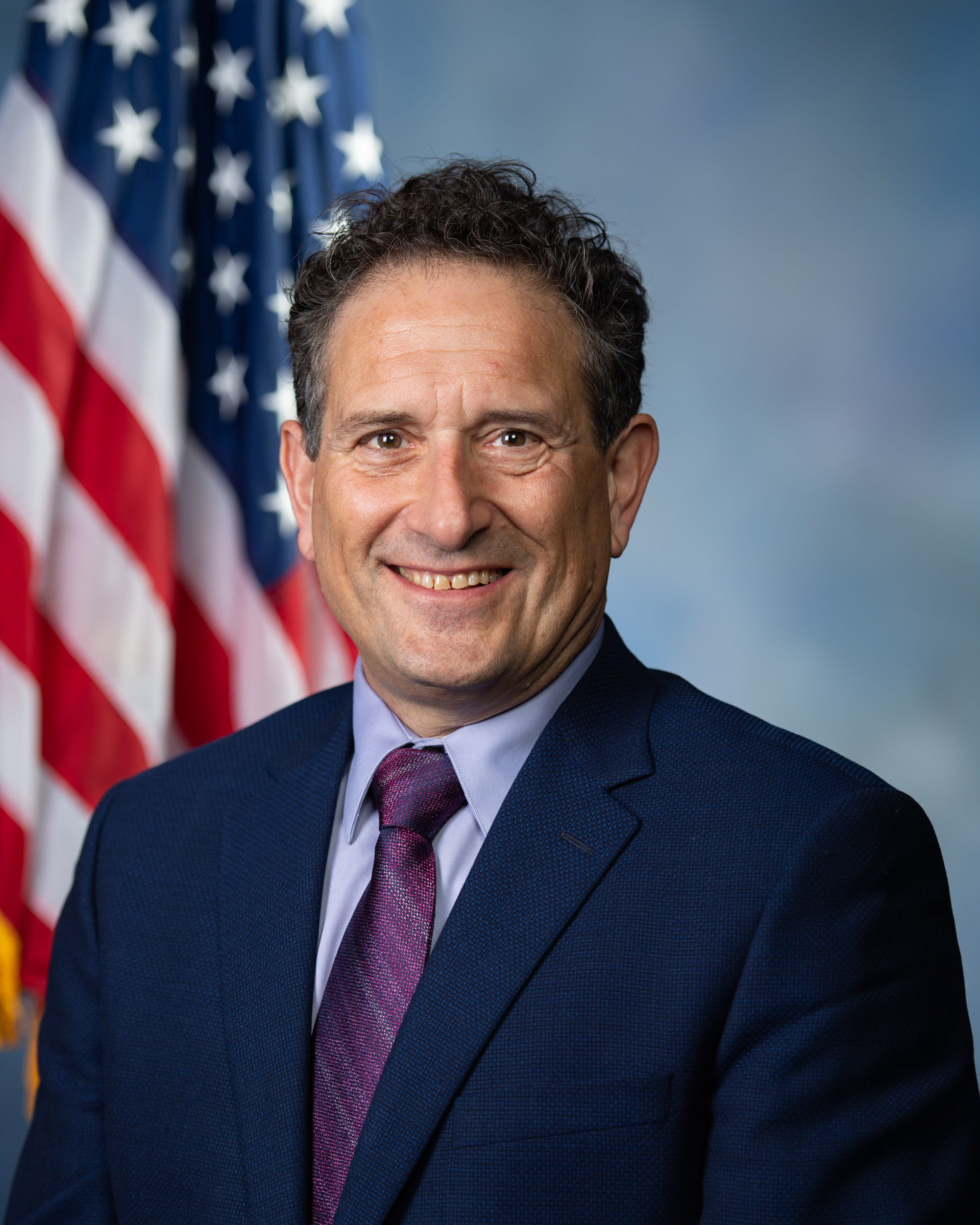 Rep. Andy Levin (D-MI09)